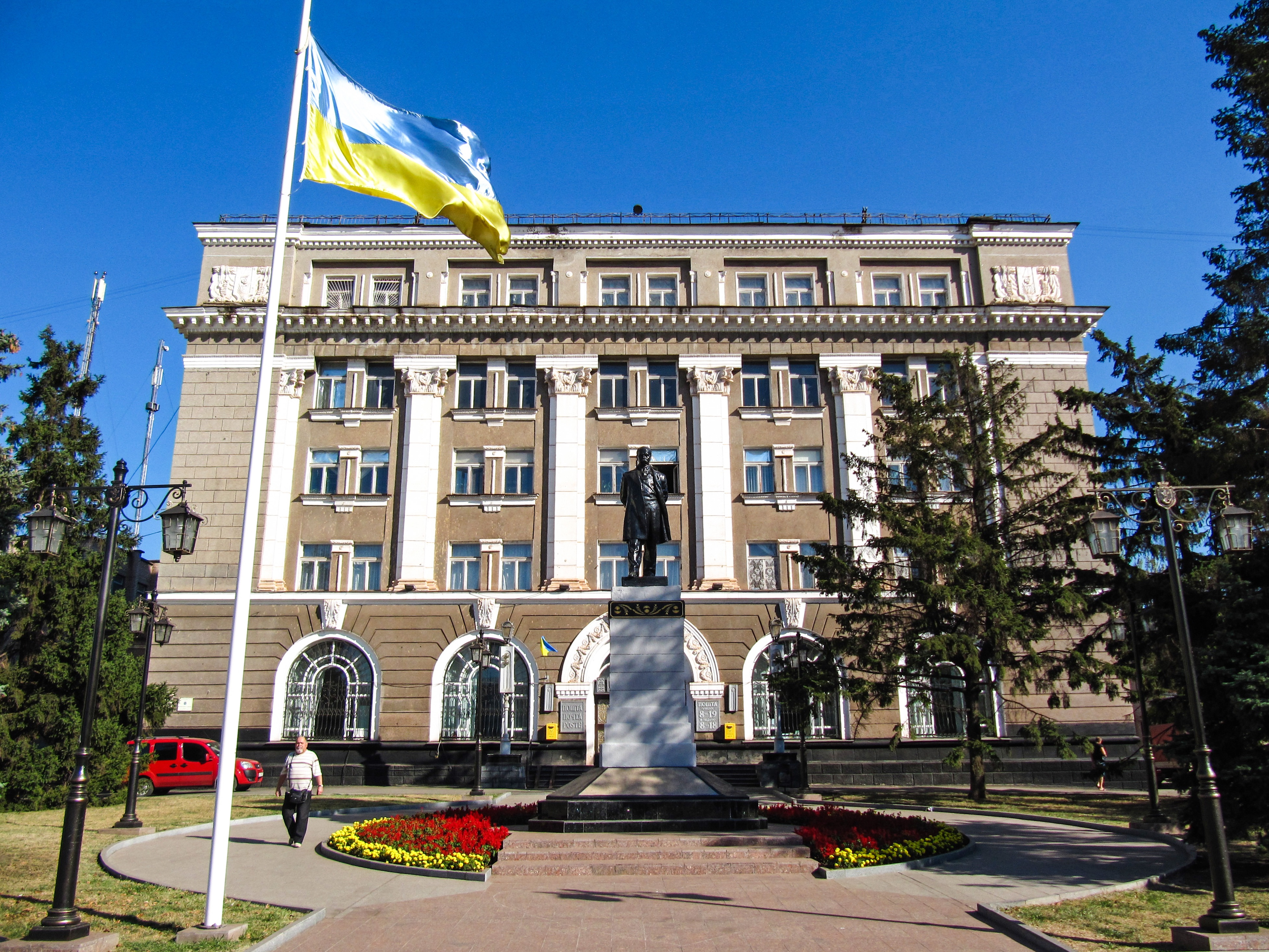 Monument of architecture - Central Post Office, Kryvyi Rih, Ukraine